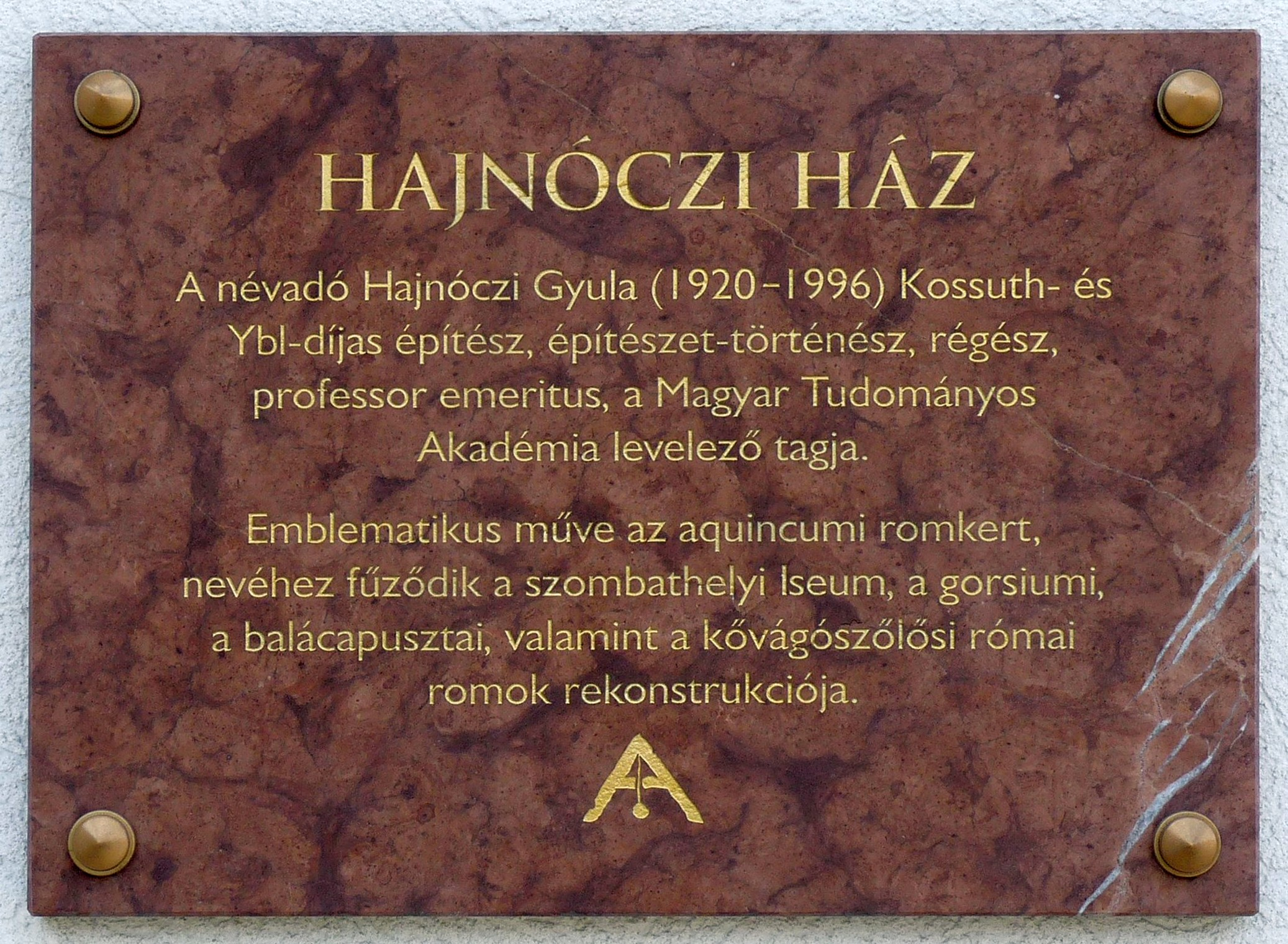 Commemorative plaque to Mr. Gyula Hajnóczi (1920-1996) Kossuth and Miklós Ybl Prize-winning Hungarian architect, architectural historian, archaeologist and professor. It has been affixed to the wall of one of the buildings bearing his name in the Aquincum Museum May 10, 2013. (Budapest, District III, Szentendrei Street Nr 135-139)